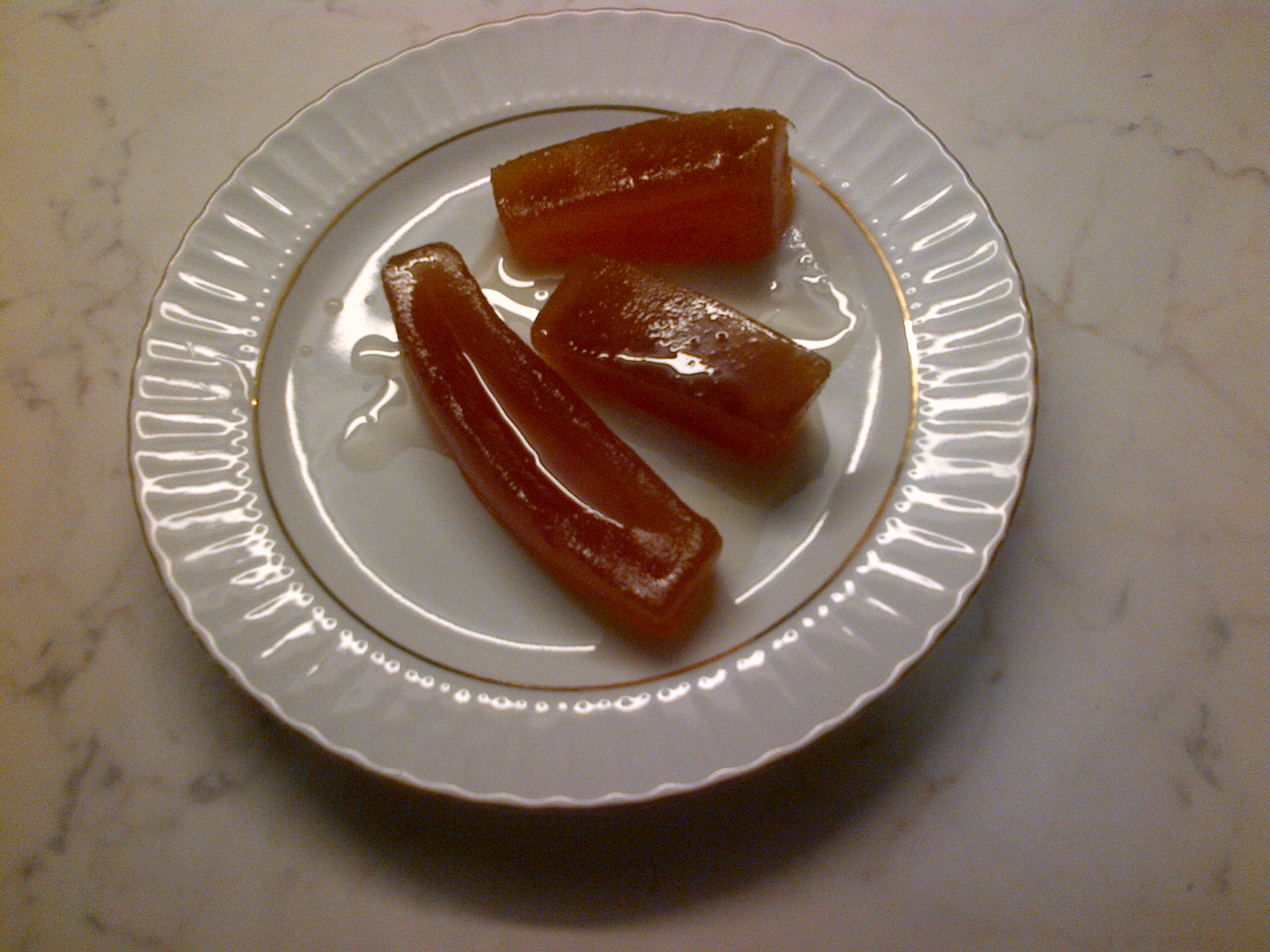 Pumpkin "sweet", not the "pumpkin dessert" (kabak tatlısı), from Hatay province in Turkey.